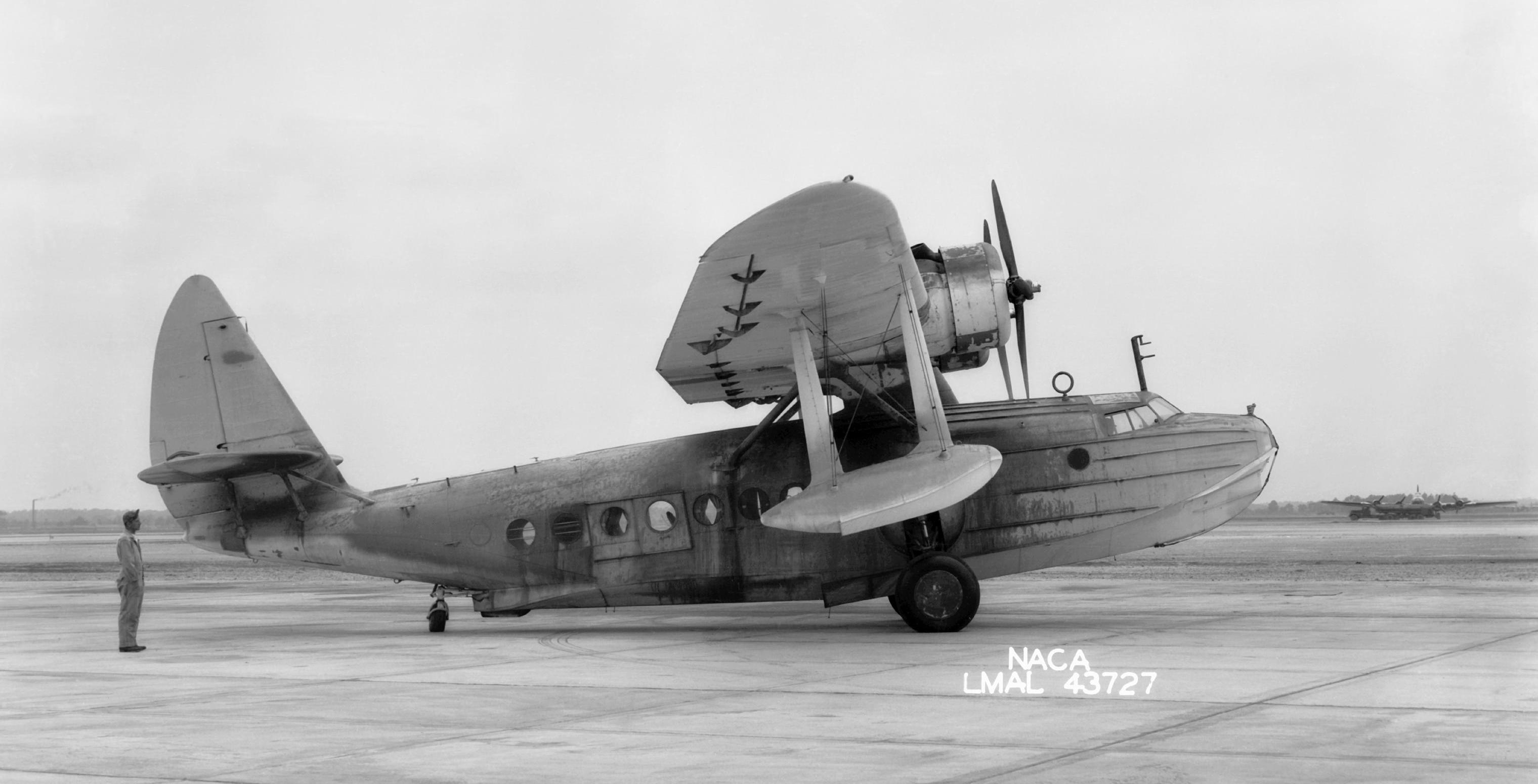 The Sikorsky JRS-1 amphibians were utility transport versions of the civil S-43. This is but one example of the 17 bought by the Navy and was flown at Langley in 1945 and 1946.